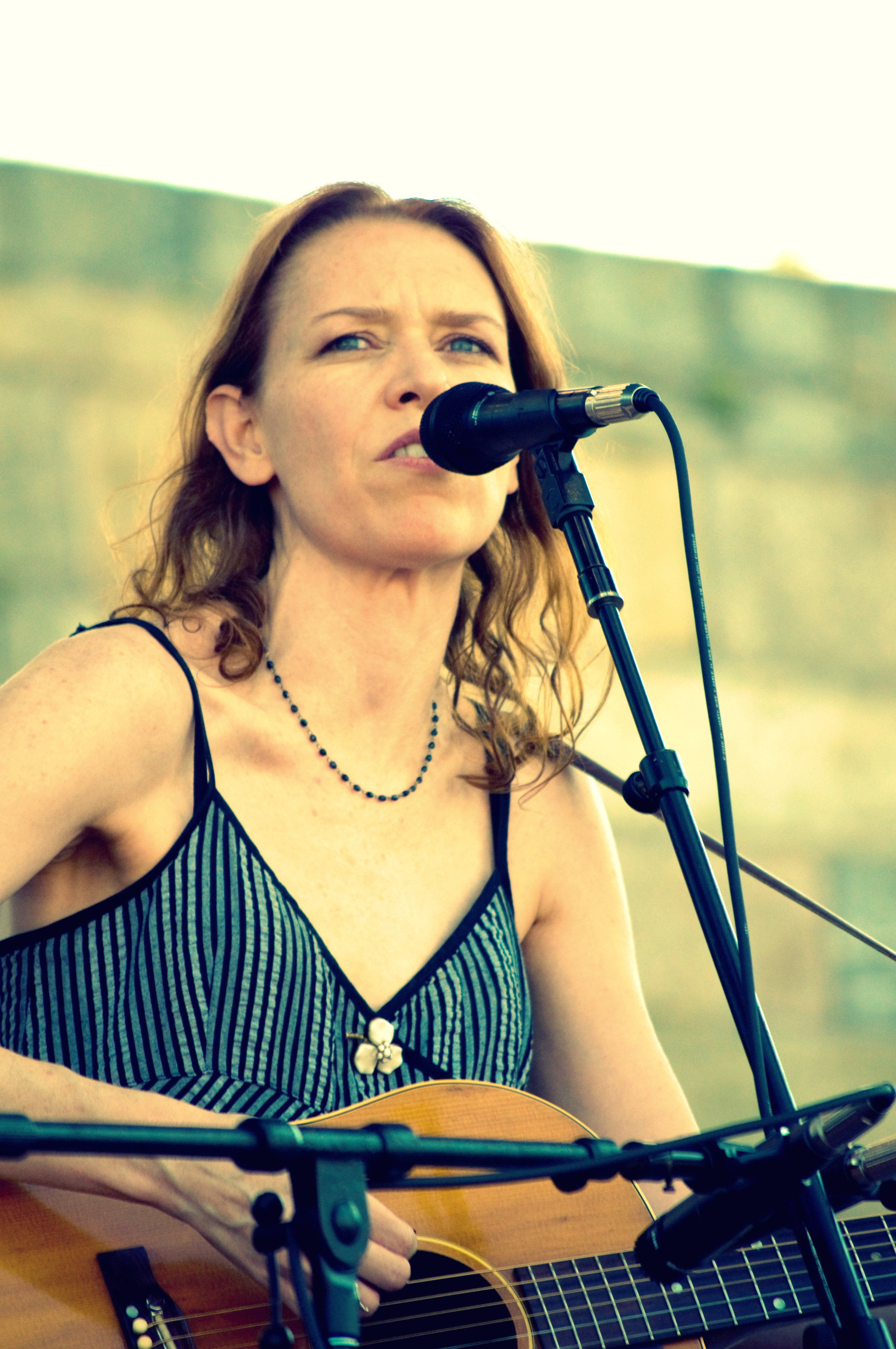 taken during a trip to rhode island for the newport folk festival. it was a wonderful time, and i was treated to an amazing show of talent.